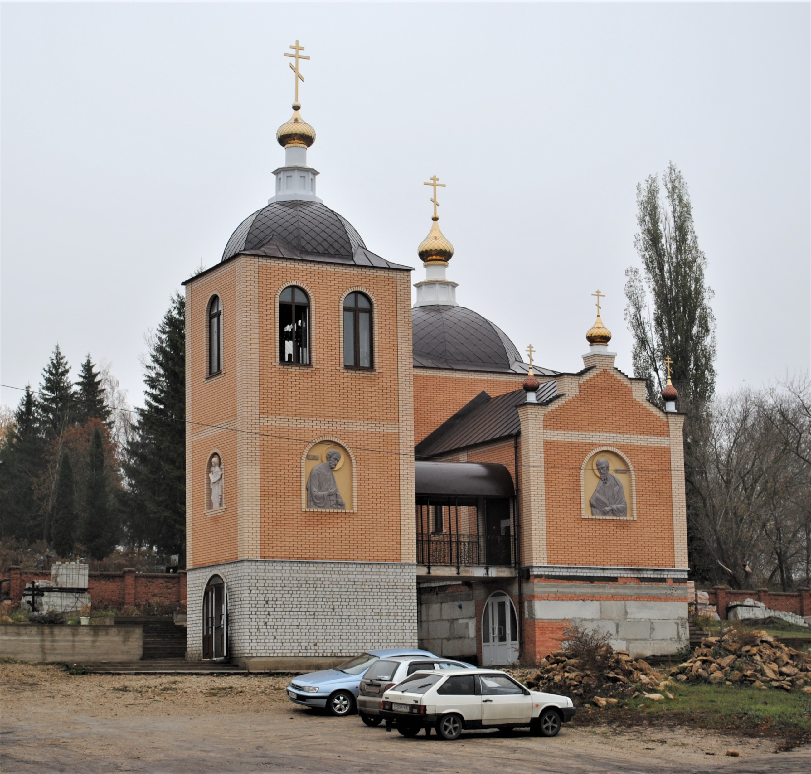 Churche in Livny